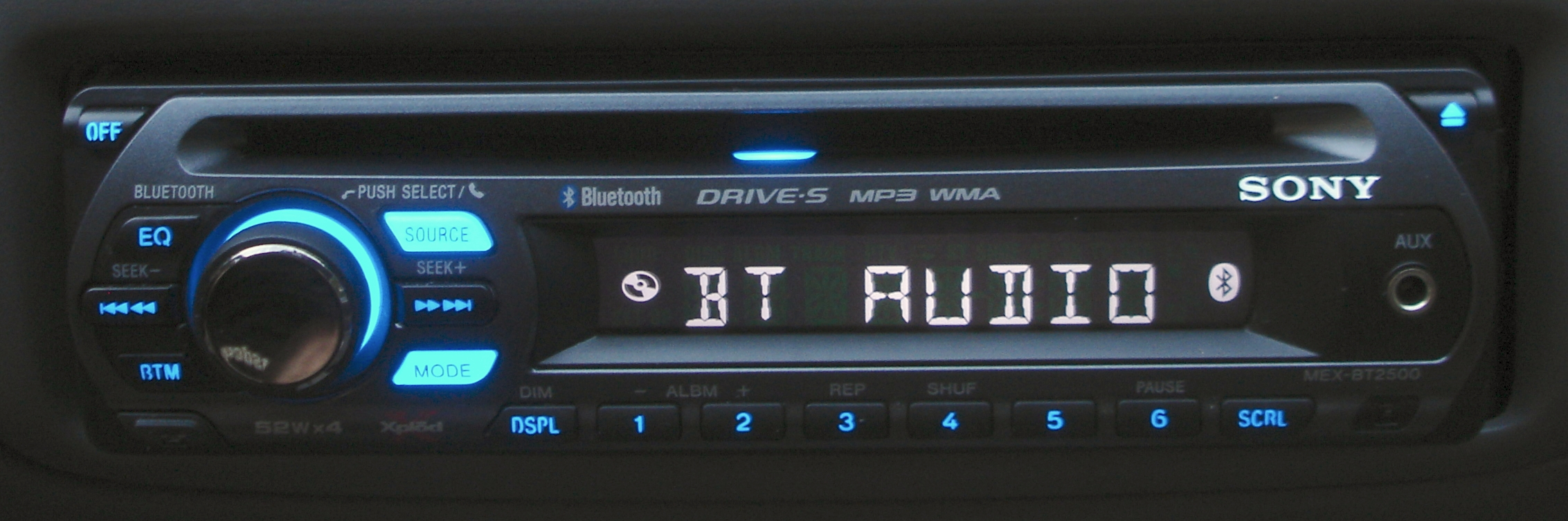 Sony Xplod MEX-BT2500 Bluetooth stereo head unit illuminated. 1998-2002 Toyota Corolla E110/Geo/Chevrolet Prizm dash.